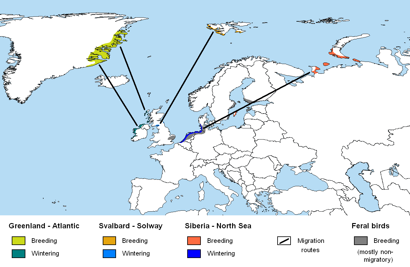 Distribution map of Branta leucopsis. Sources: Balmer, D., et al. (2013). Bird Atlas 2007-11. BTO. Feige, N., et al. (2008). Newly established breeding sites of the Barnacle Goose Branta leucopsis in North-western Europe – an overview of breeding habitats and colony development. Vogelwelt 129: 244–252. Snow, D. W., & Perrins, C. M. (1998). The Birds of the Western Palearctic, concise ed. Oxford.